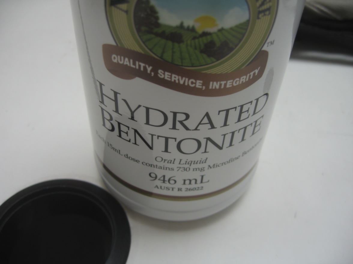 Hydrate Bentonite from Nature's Sunshine Products